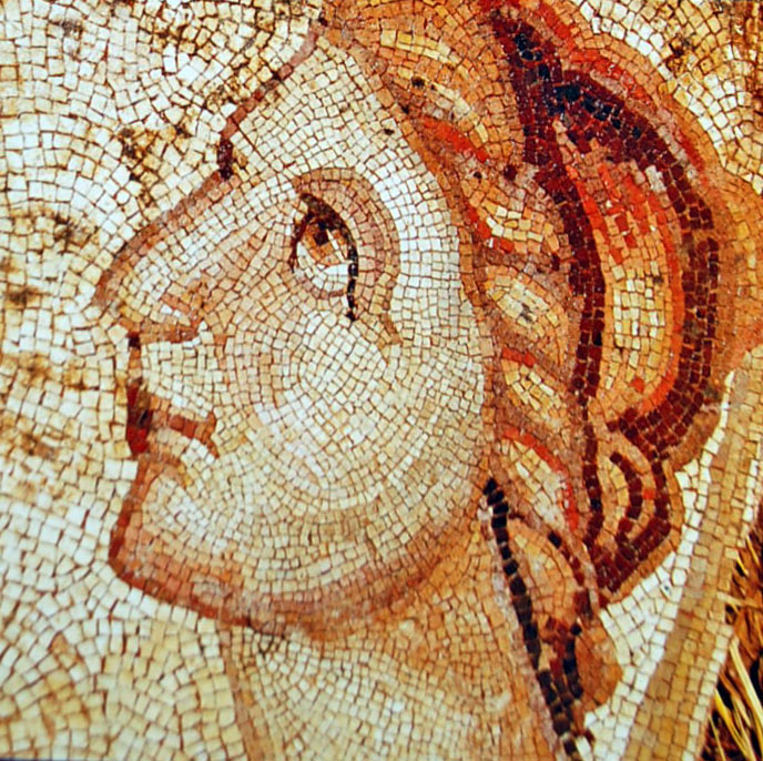 Ancient mosaic depicting a princess of Skyros from the Iliad (from a larger mosaic depicting her fawning over the cross-dressed Achilles while Odysseus discovers them), from the Roman villa of La Olmeda in Pedrosa de la Vega (Palencia, Castile and León, Spain), late 4th-5th centuries AD.